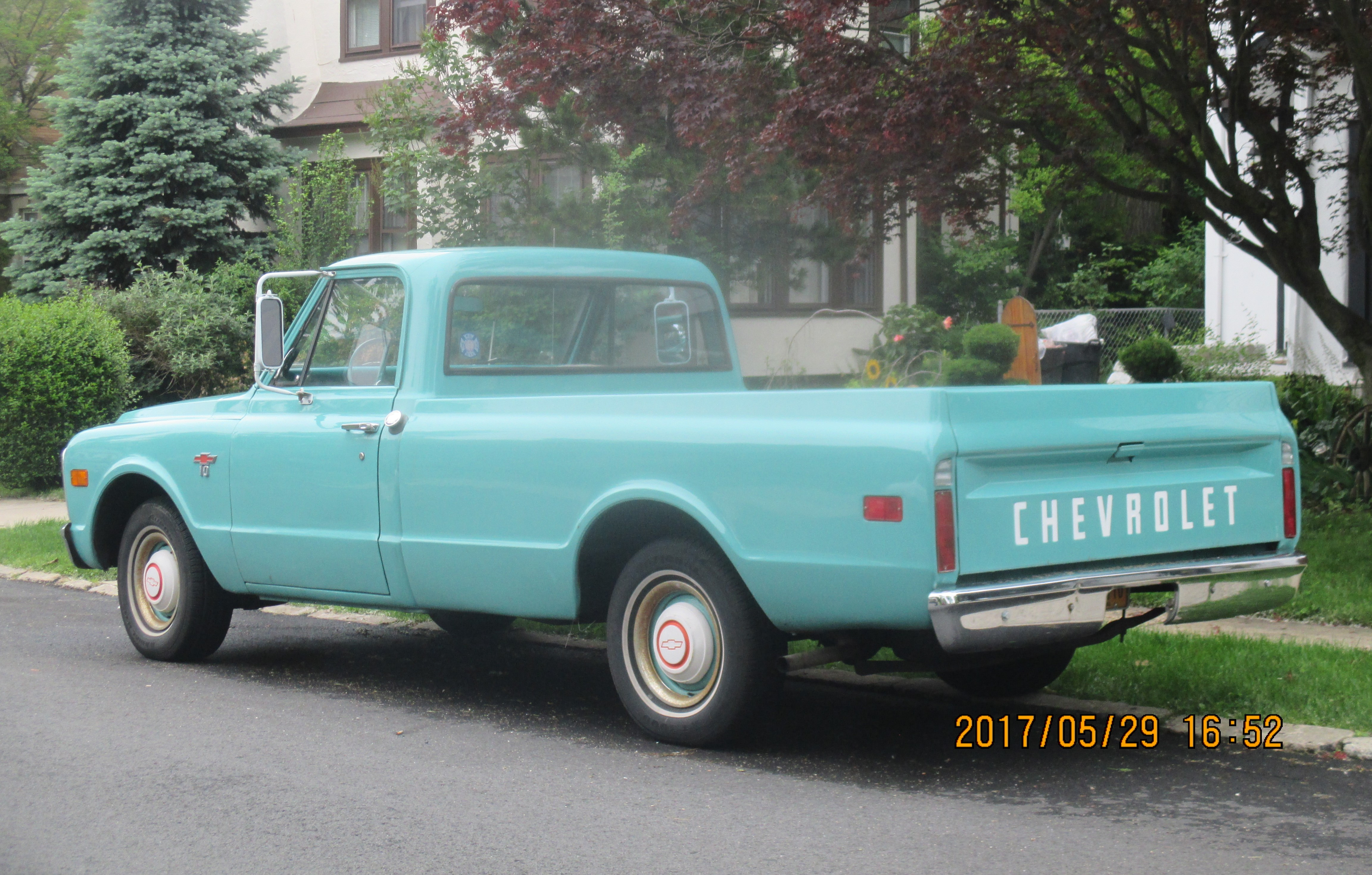 In Bayside, New York